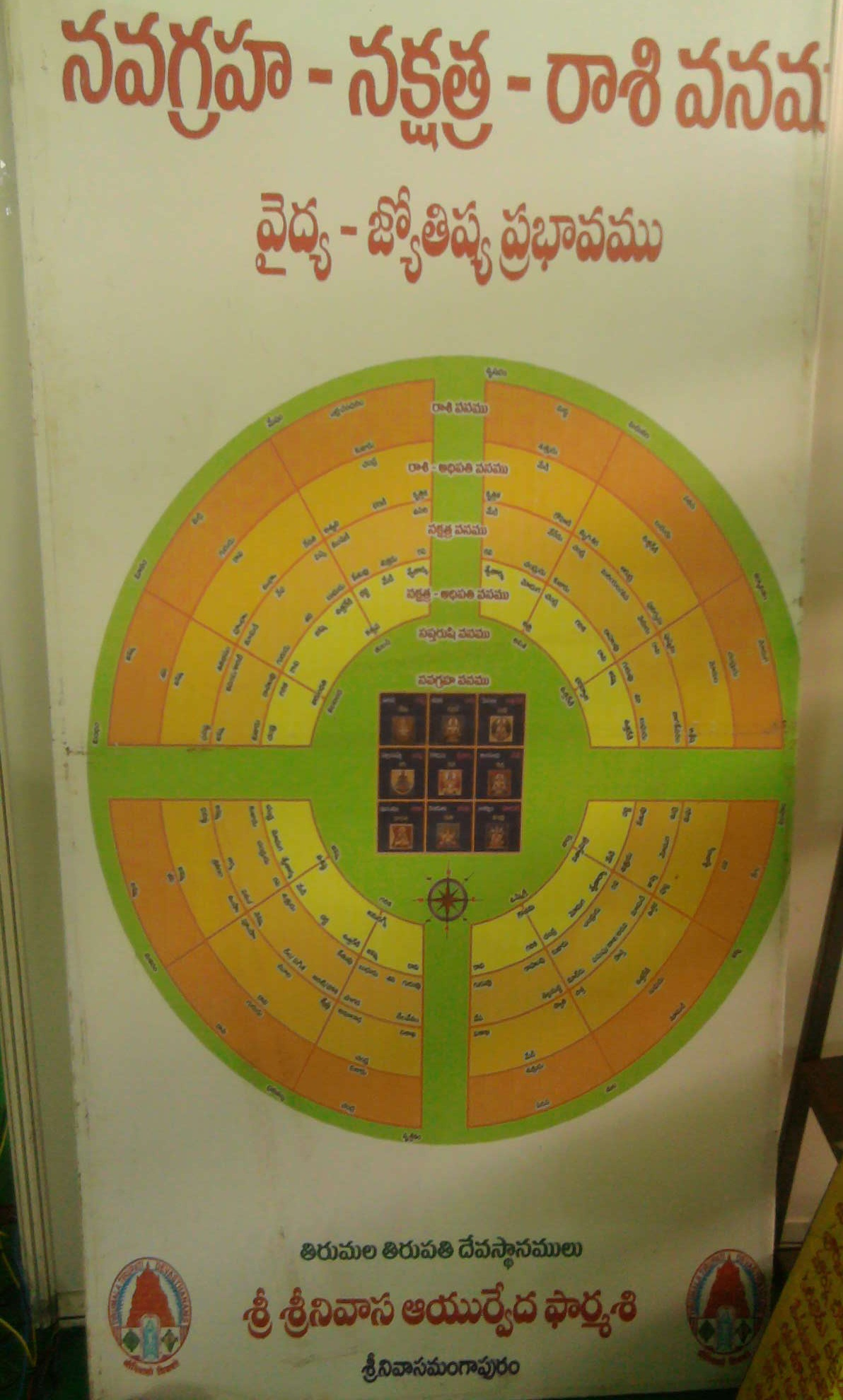 Nakshtra vanam - formed by Tirumala Tirupati Devasthanams